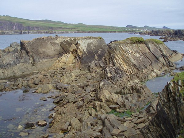 Rocks in the sea. These are some of the oldest rocks in the Dingle Peninsula, being silurian in date. They consist of mudstones and siltstones with some volcanic material (pyroclasts)